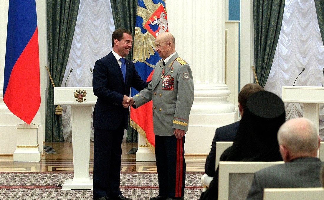 Sergey Sokolov was awarded the Order of Alexander Nevsky.